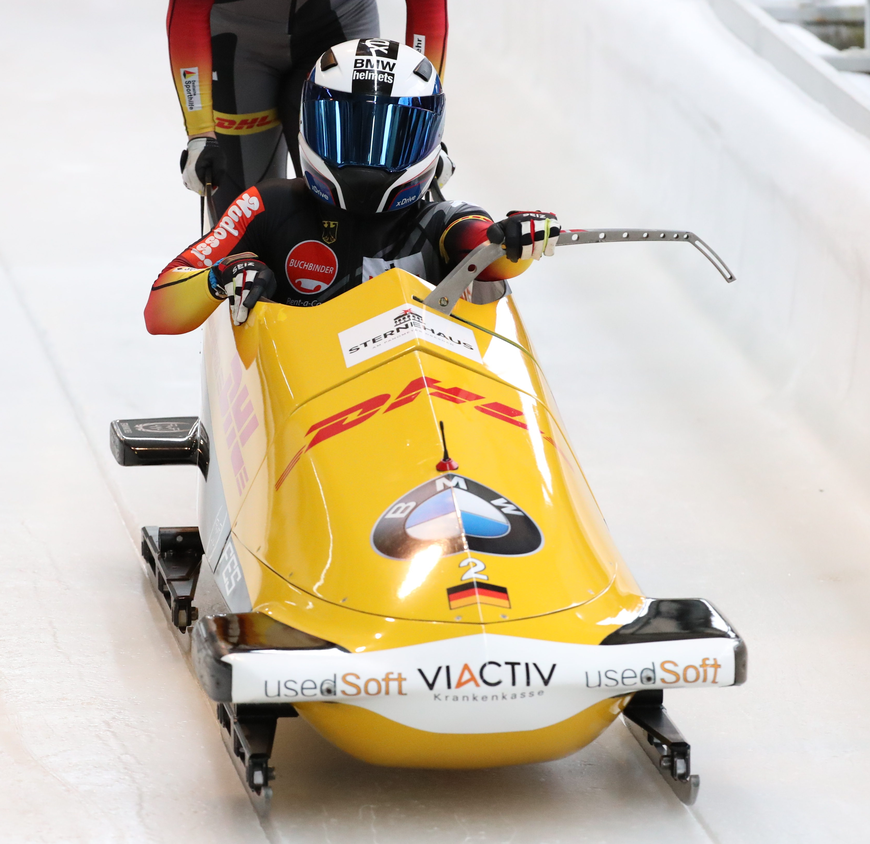 1st run at the 2-woman bobsleigh at the Bobsleigh and Skeleton World Championships 2020 in Altenberg